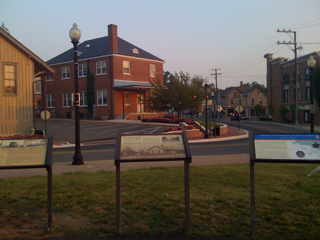 Historic area of Herndon Virginia